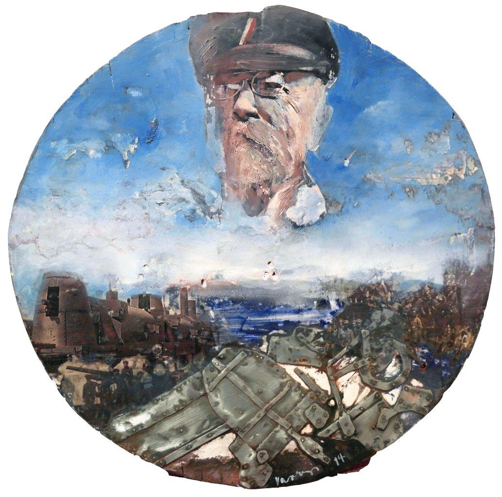 "Tomáš Garrigue Masaryk in Siberia" - a portrait from a picture cycle called "Czech Memory" (This cycle is dedicated to dramatic historical events and personalities who wrote the history of the independent state of Bohemia and the Slovaks from its origin (1918) to the present (2018); form of wok of art: painting on wood - circular "shooting target" with a diameter of 60 cm; Author: academic painter Pavel Vavrys; year: 2014.